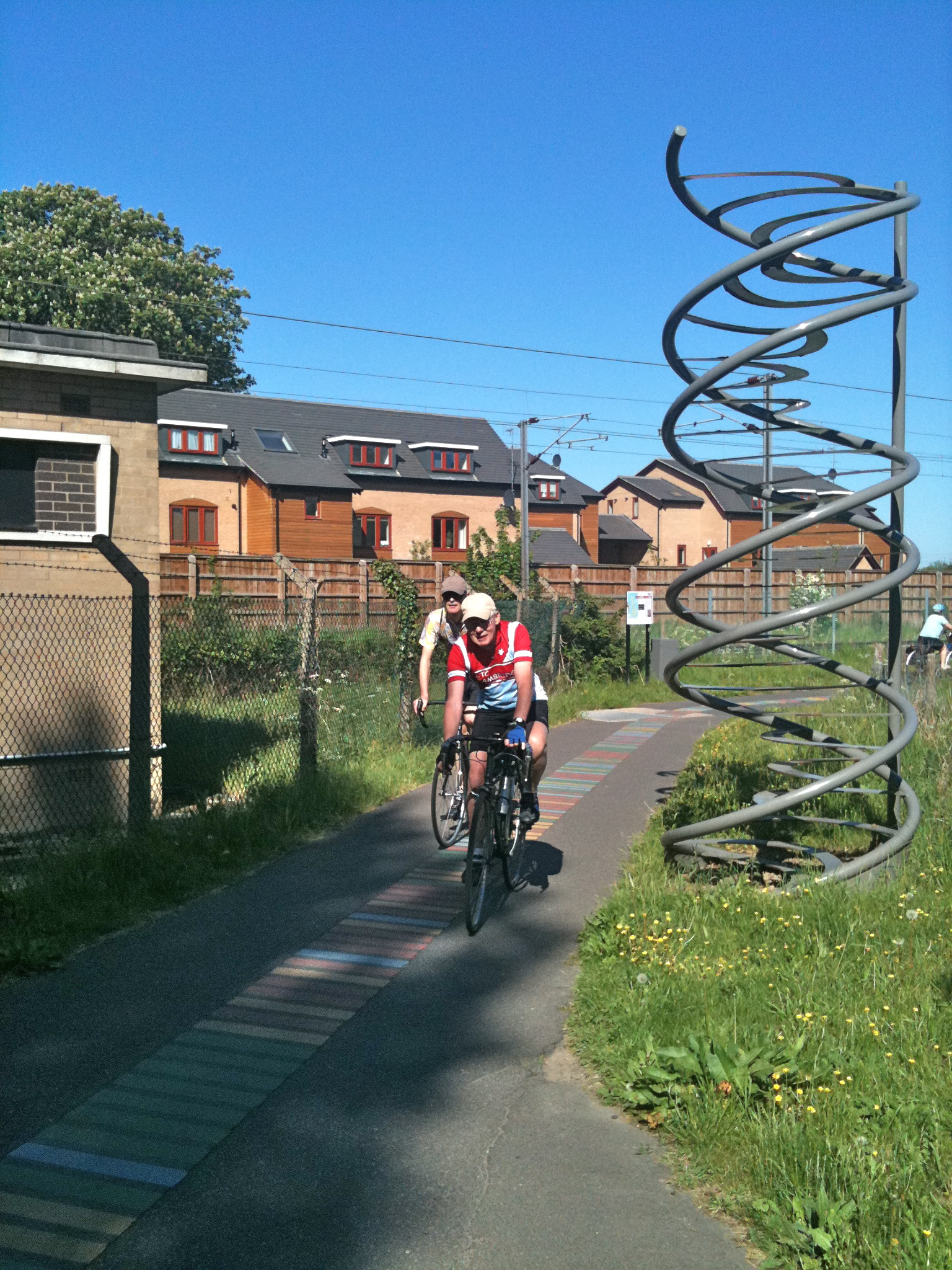 National Cycle Route 11 near Great Shelford in Cambridgeshire. The coloured stripes represent the nucleotide sequence of the BRCA2 gene (discovered in 1994; the discoverers included scientists from nearby Addenbrookes Hospital and The Sanger Centre, Hinxton).